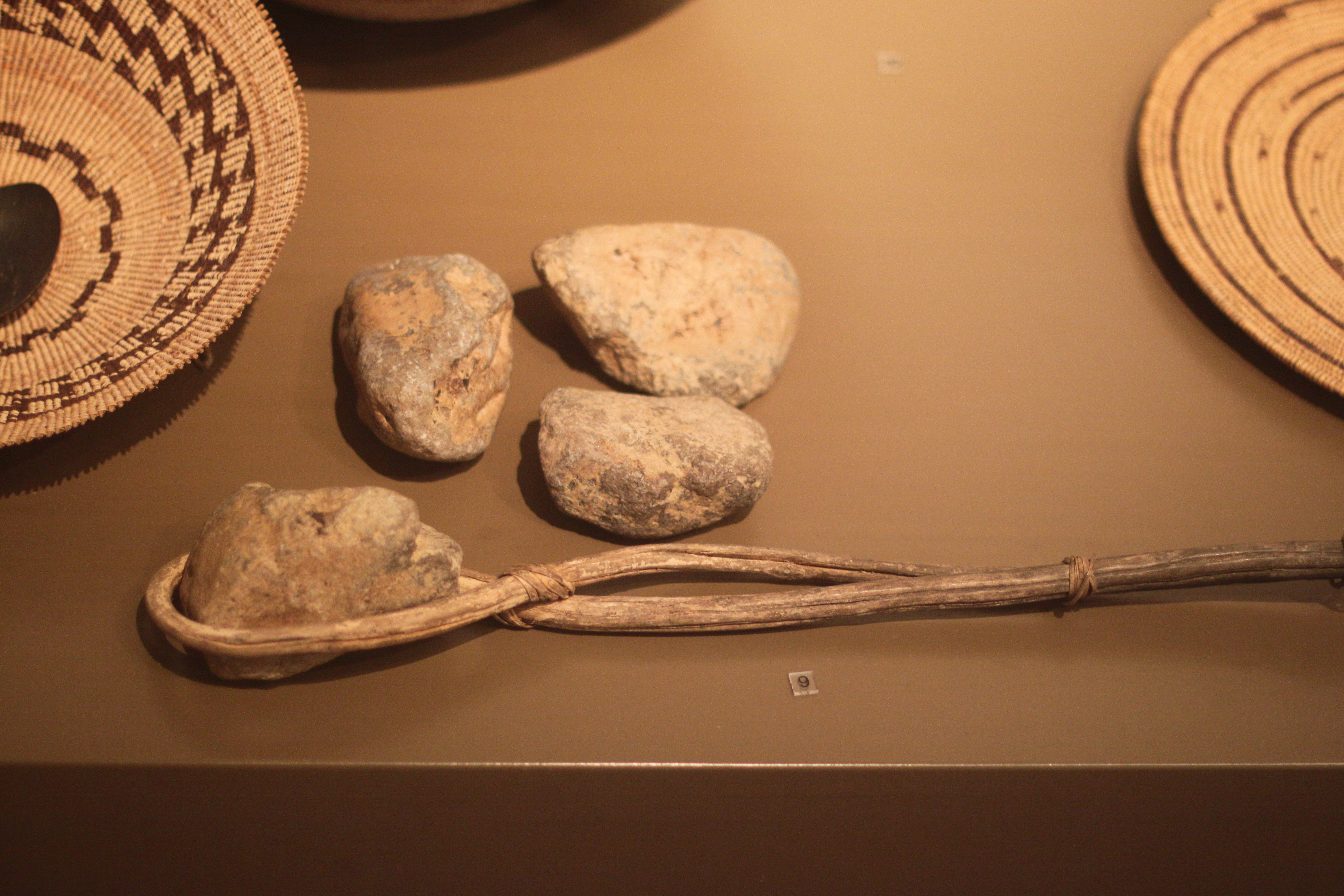 Nordamerikaabteilung im Ethnologischen Museum, Berlin-Dahlem; Wooden fork and four steatite cooking stones. Miwok; Wilcomb collection; 1914; In most ares of California, cooking was done in watertight baskets. First, the acorn meal was mixed with water. By adding red-hot stones, the acorn mush was heated. After cooling, the stones were taken out with a wooden fork and replaced by new ones until the mush or soup was fully cookes.